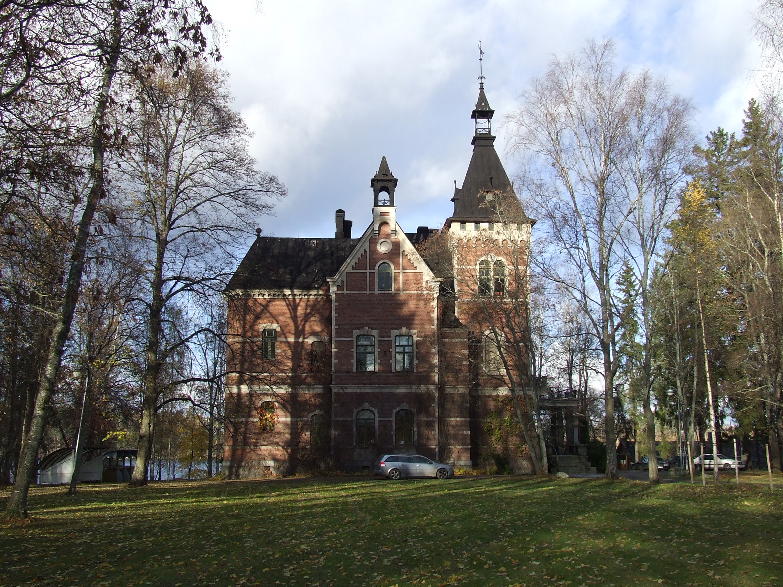 Villa Idman in Tampere, Finland, near the Hatanpää manor.